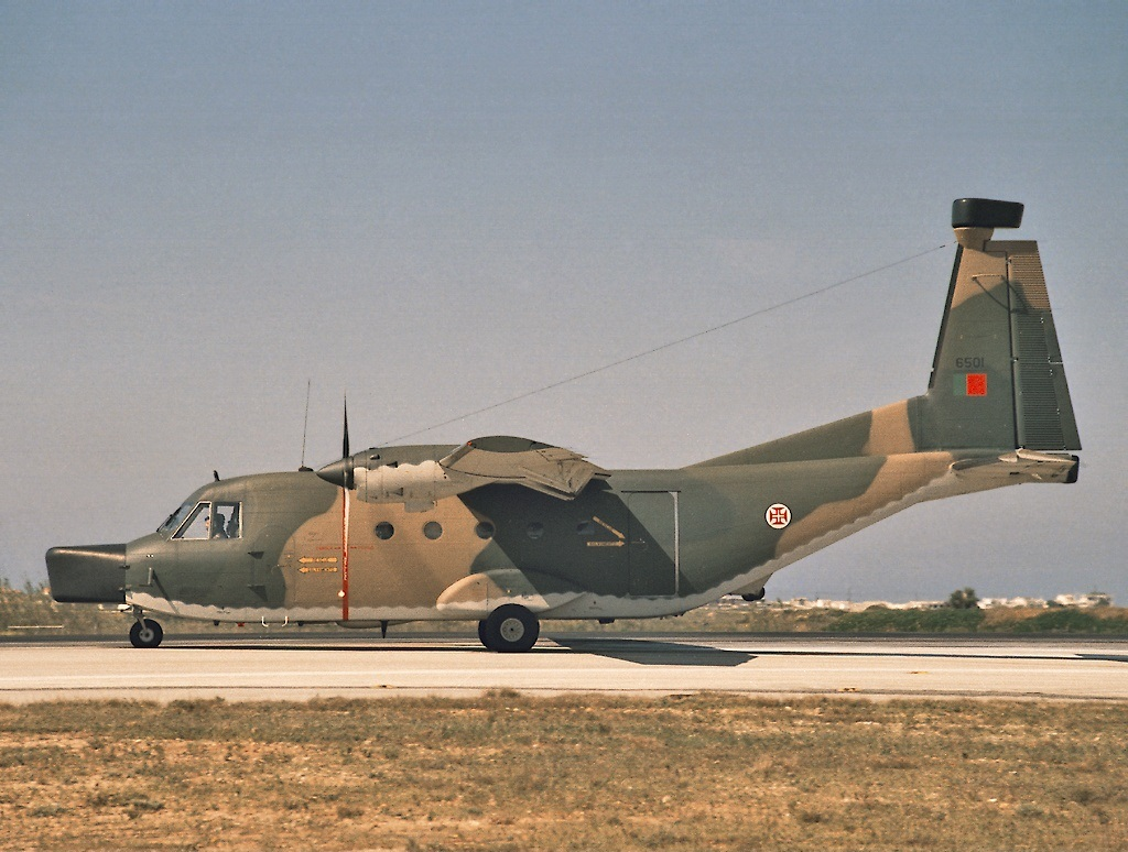 CASA C-212 ECM of the Portuguese Air Force.